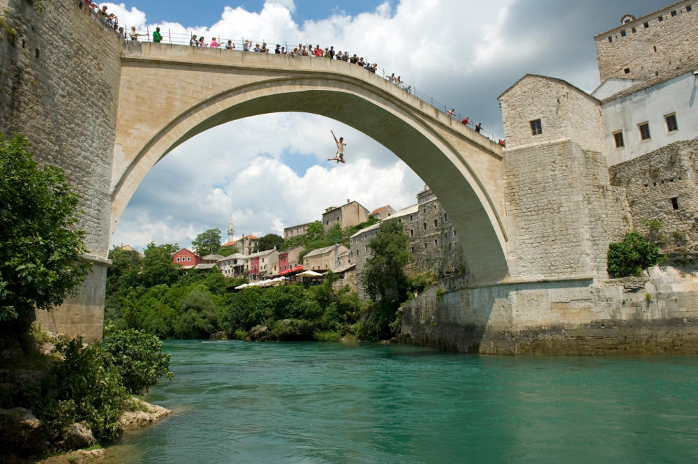 22 year old Trevor (Canada, Tourist) jumps for a 25 Euro fee from "The Old Bridge" (Stari Most) in Mostar